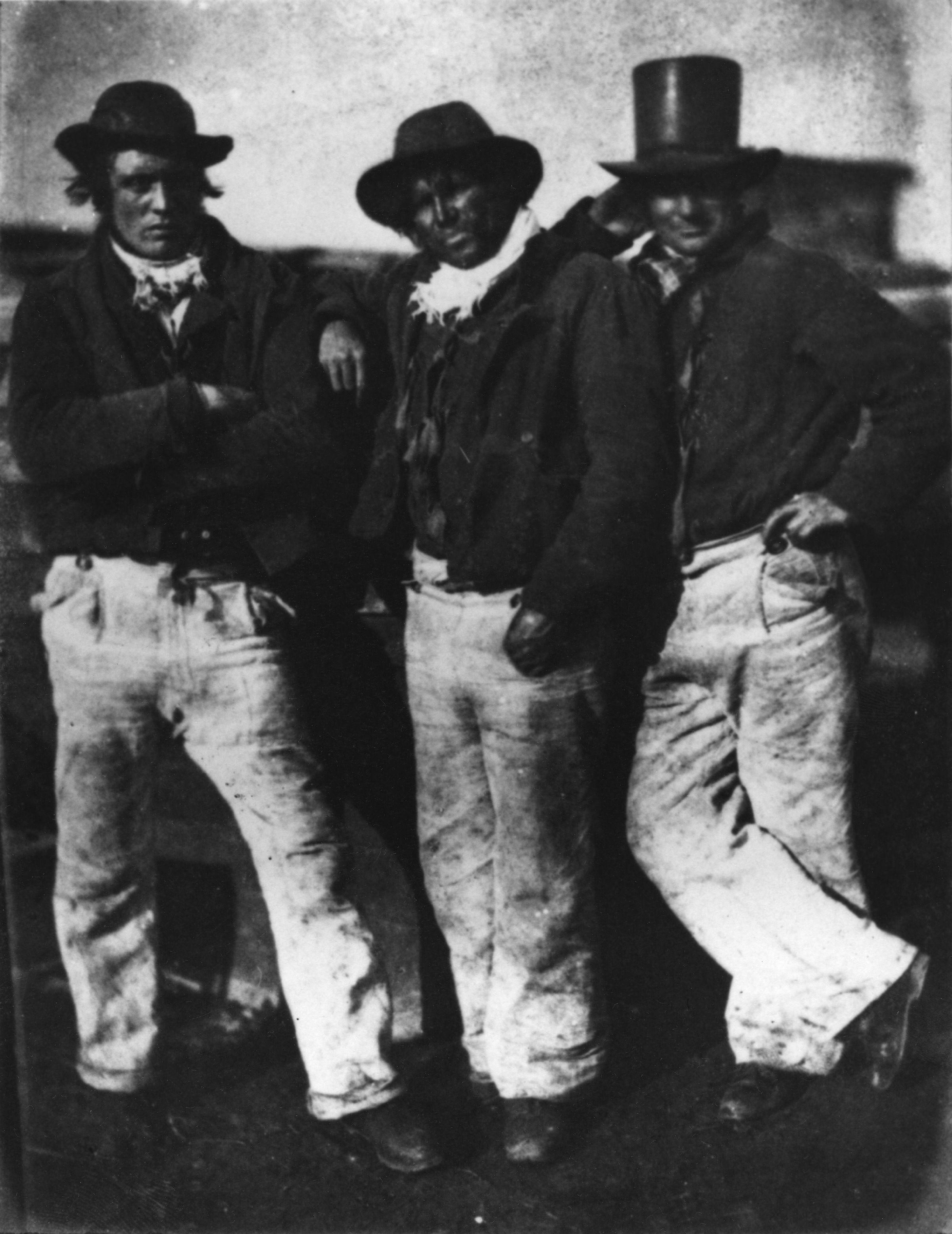 Fishermen Ashore, given to the National Portrait Gallery, London in 1973. All images in this batch have been confirmed as author died before 1939 according to the official death date listed by the NPG.